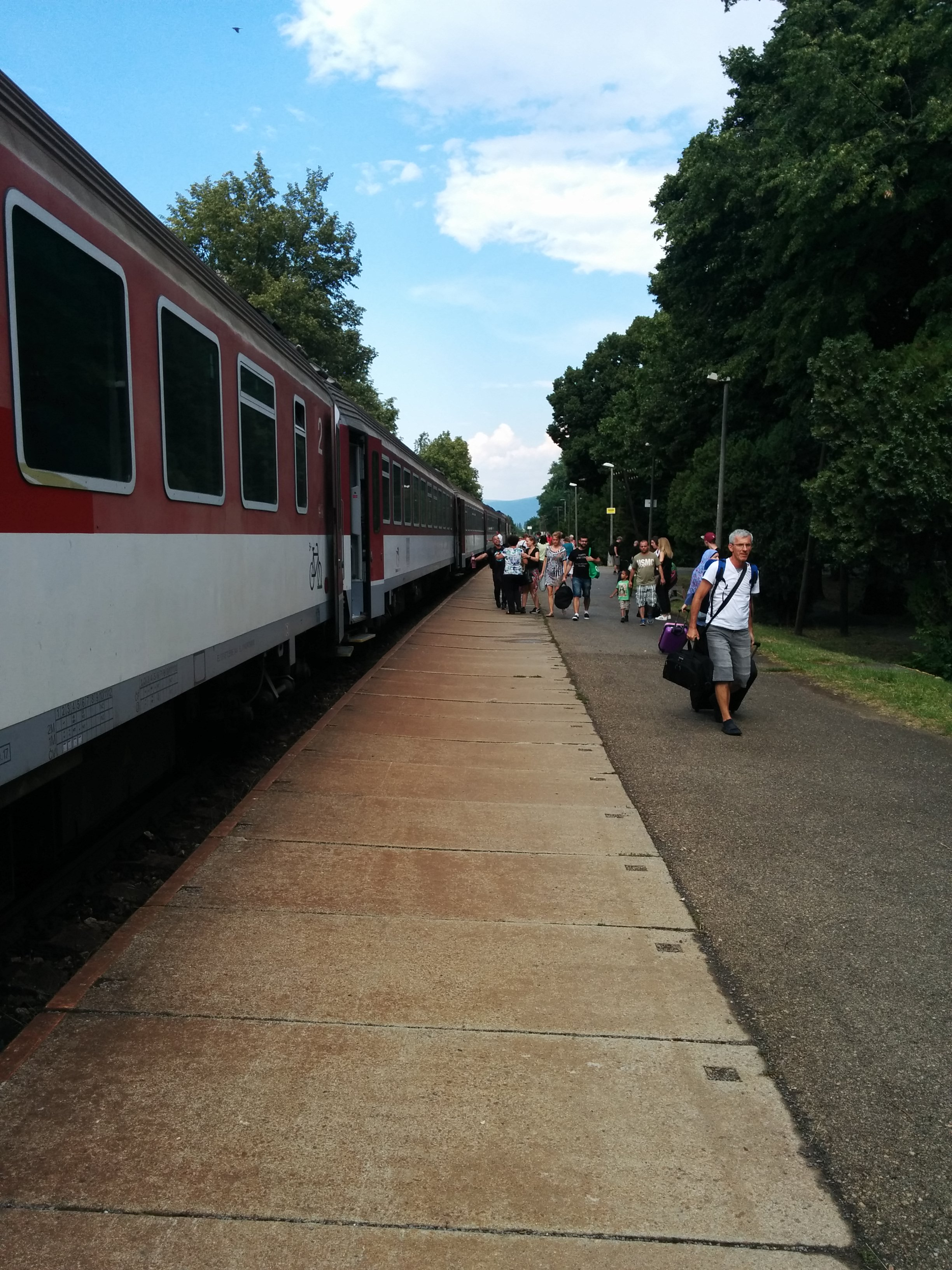 Railway stop Partizánske, Slovakia in July 2018.